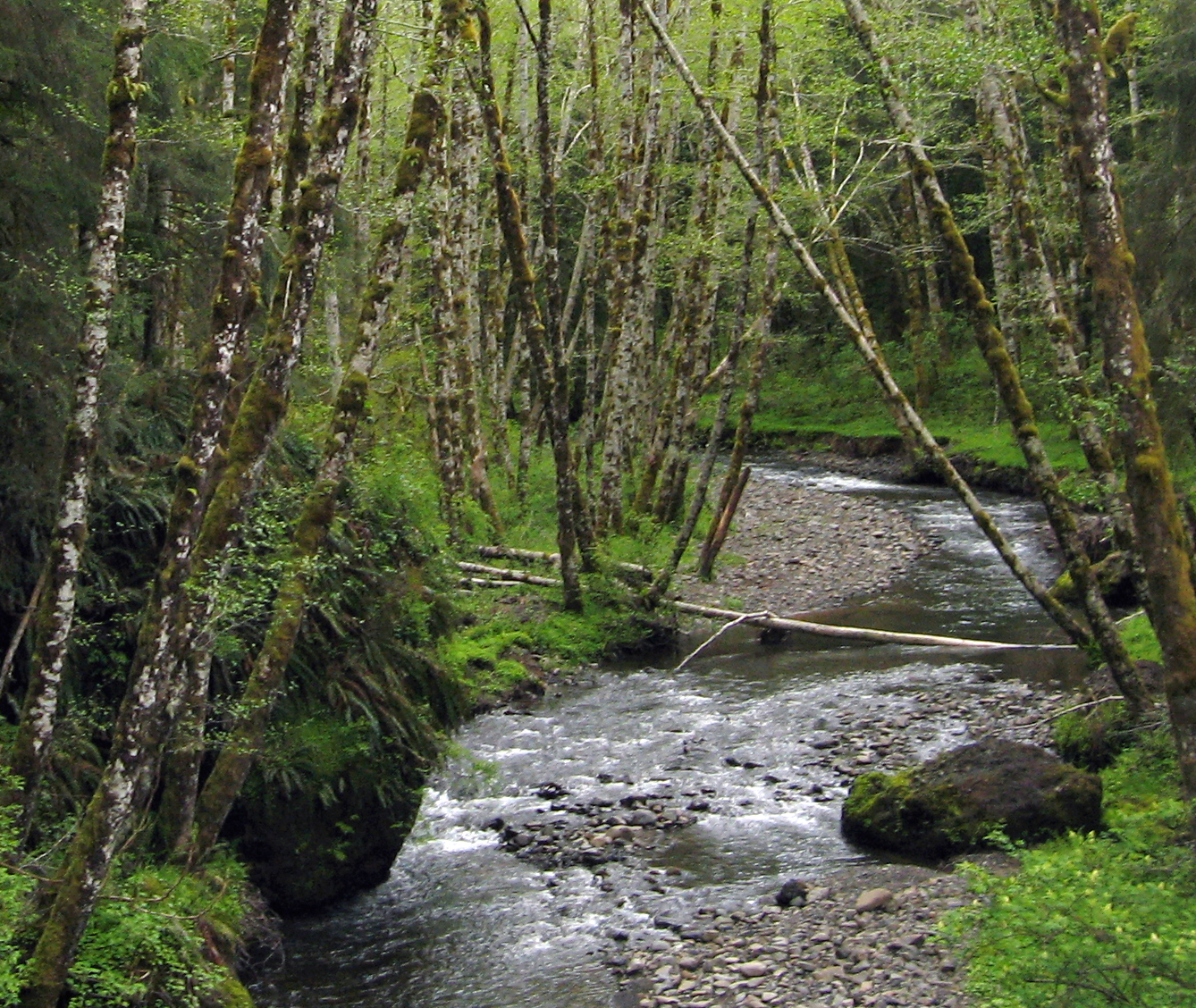 The Lewis and Clark River from the road to Saddle Mountain State Park.